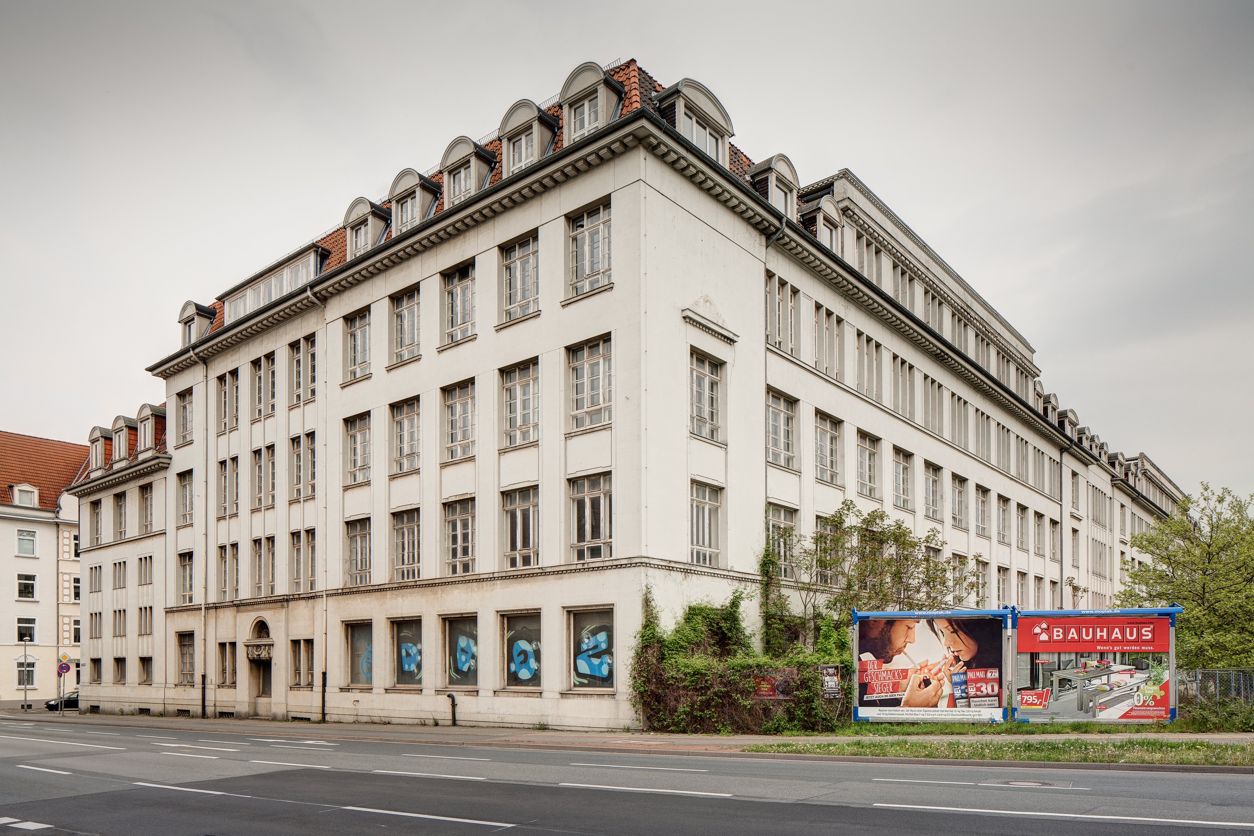 Abandoned administration building of Hanomag engineering works located at Linden-Sued district in Hanover, Germany. The building was later used by Hanover university and Hanover university of applied sciences (FH Hannover).